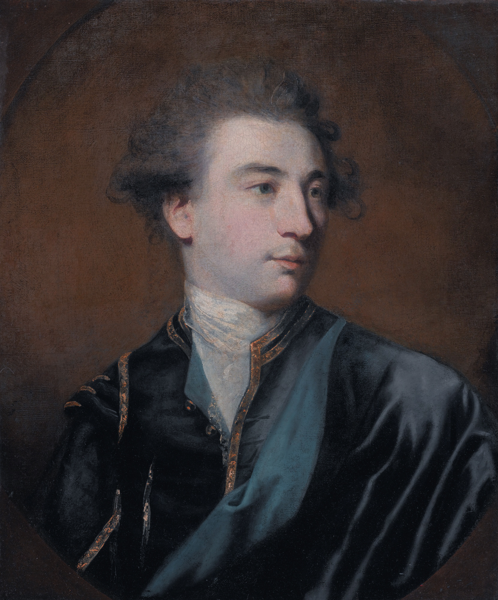 William Hanger, 3rd Lord Coleraine oil on canvas 61 x 50.8 cm